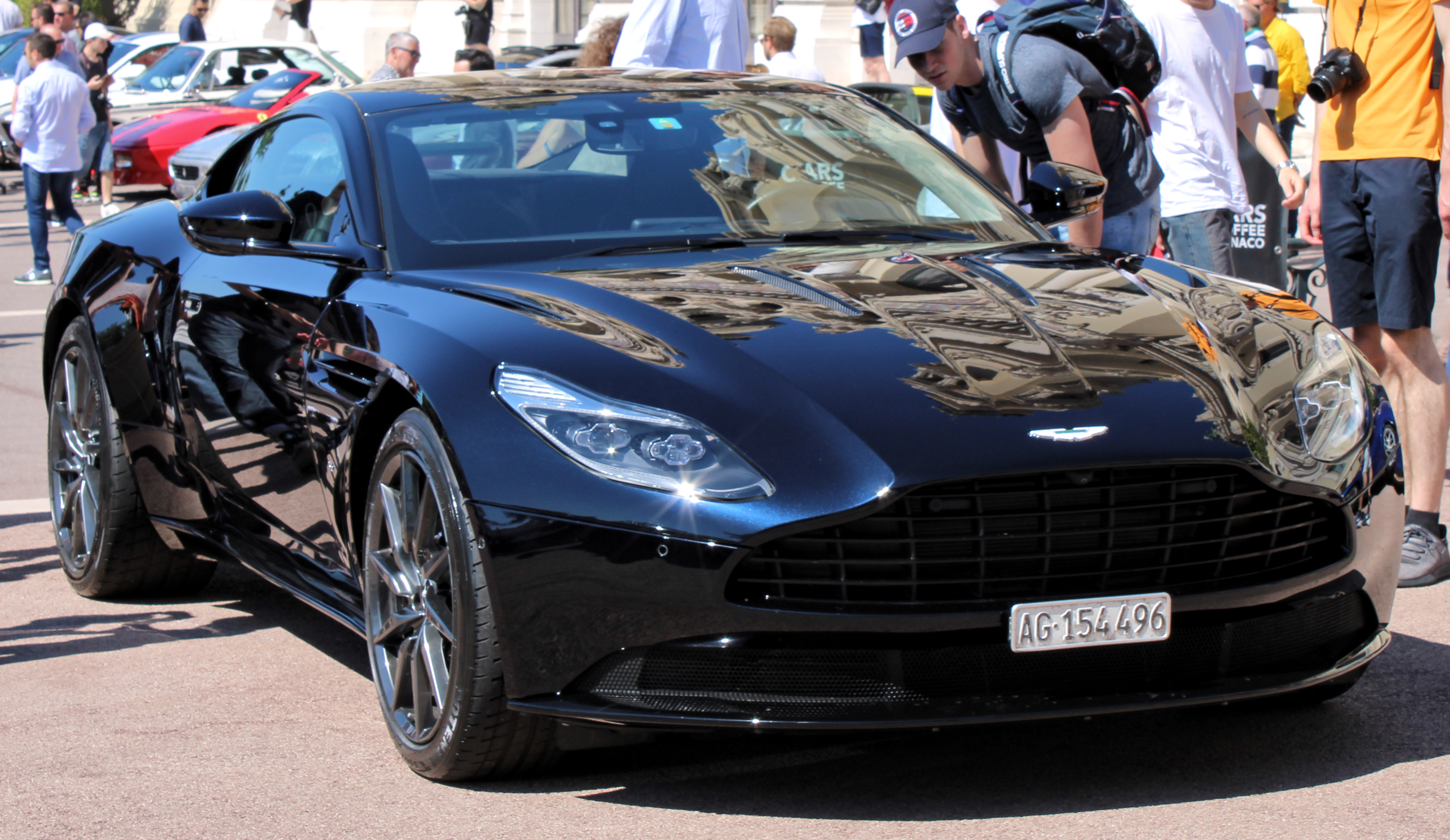 Aston Martin DB11 in Monaco